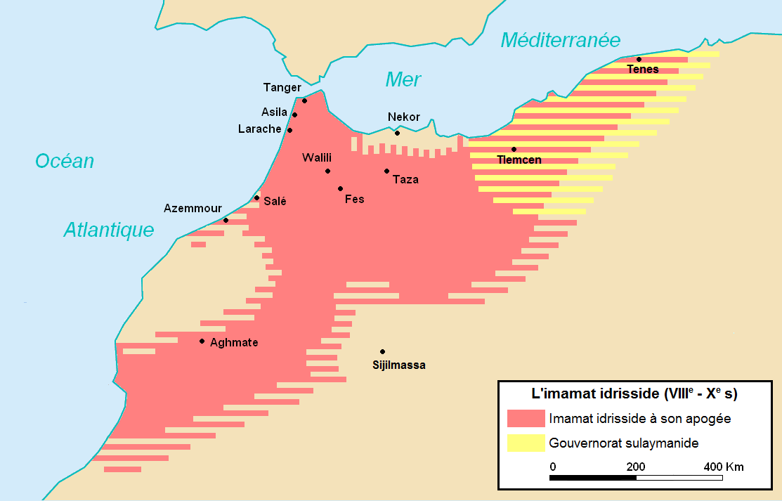 Localization of Sulaymanid governorates / principalities in the Idrisid imamate